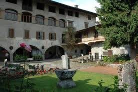 It's the photo of museo fantoni